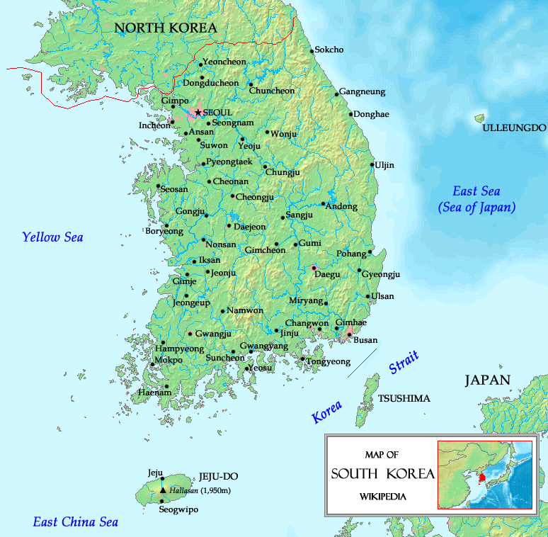 A map of South Korea, made by the uploader. The map is based on maps from